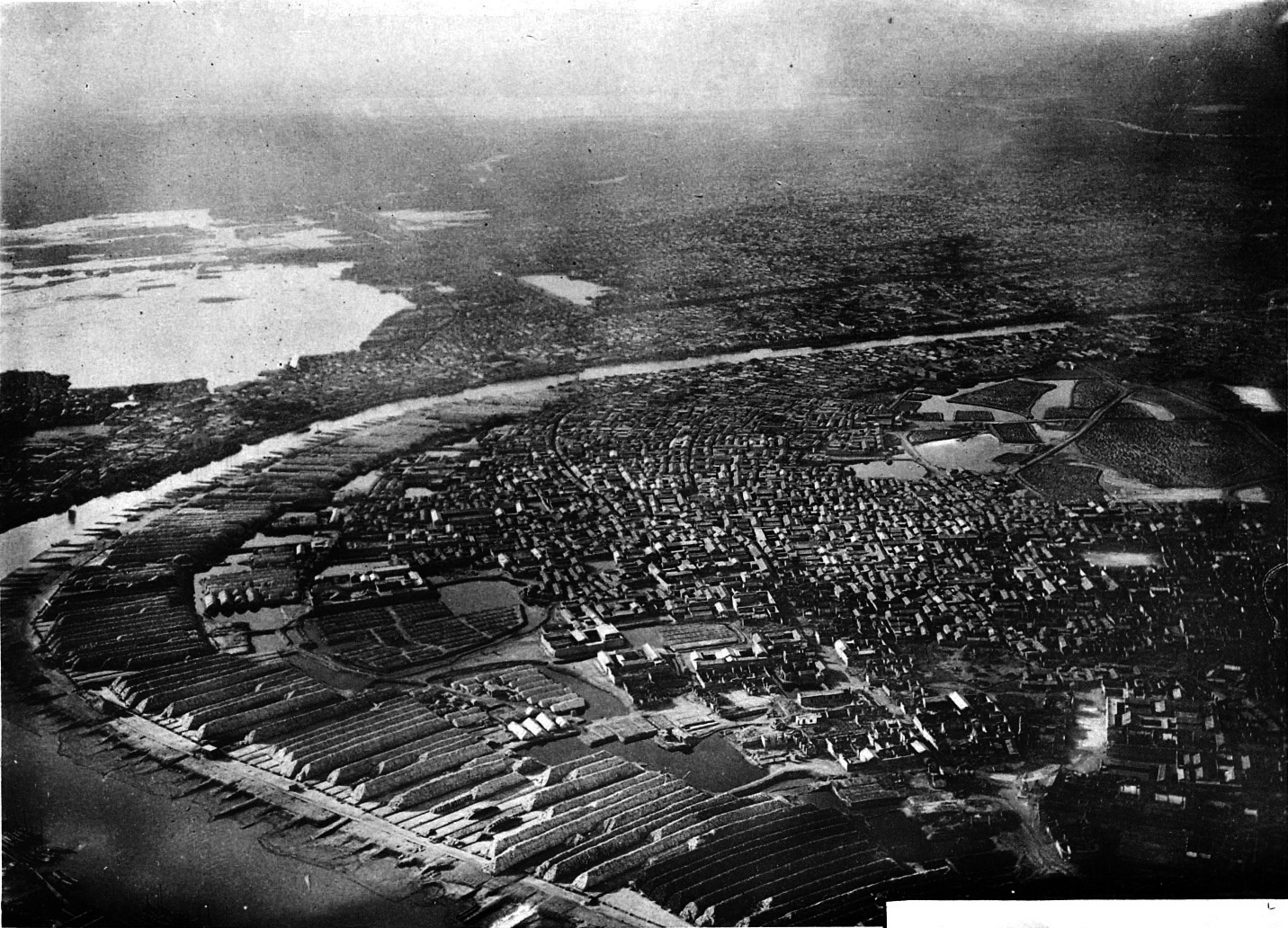 Image from La Chine à terre et en ballon.